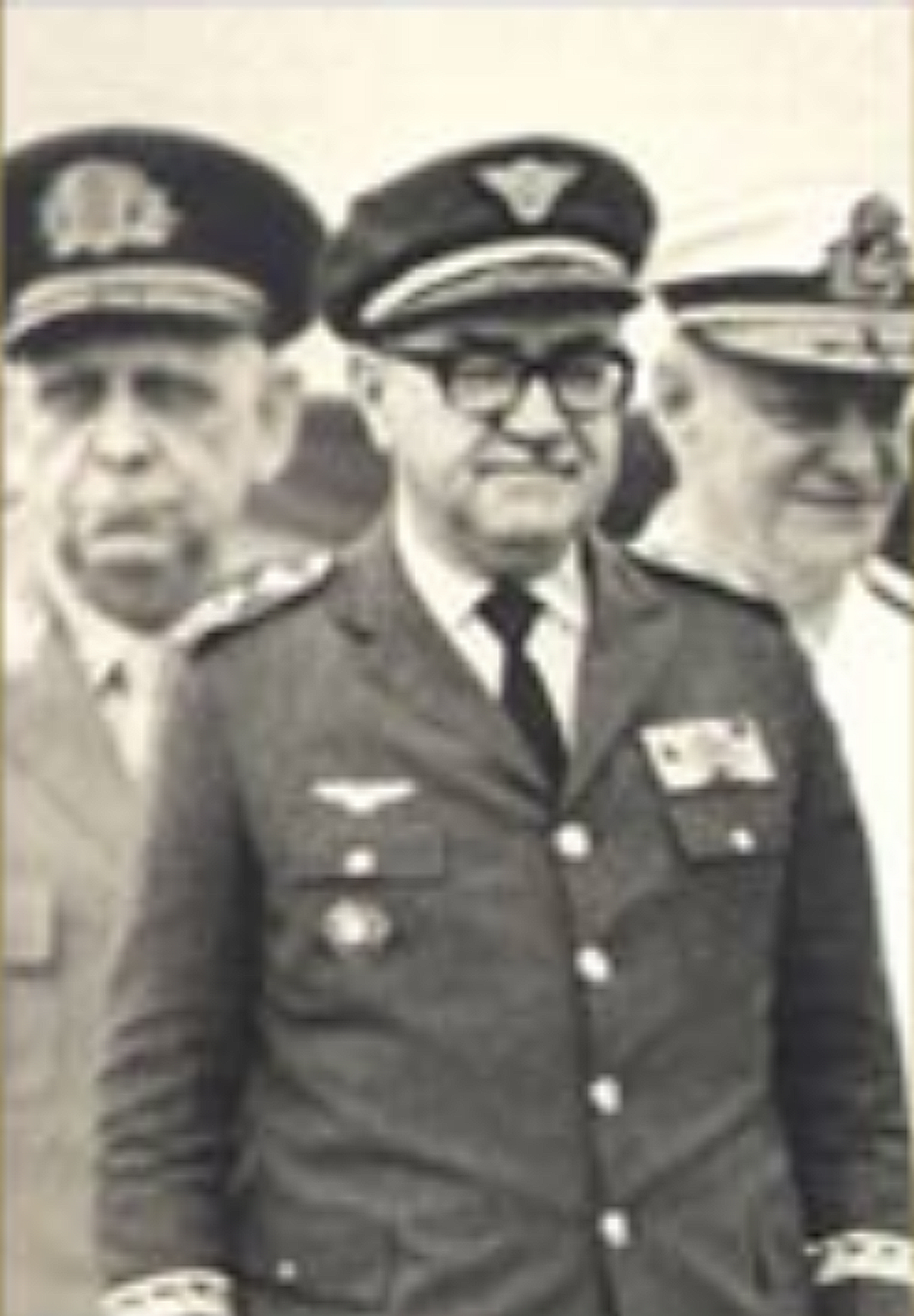 Military junta of 1969, Aurélio Lira, Márcio Melo and Augusto Rademaker.